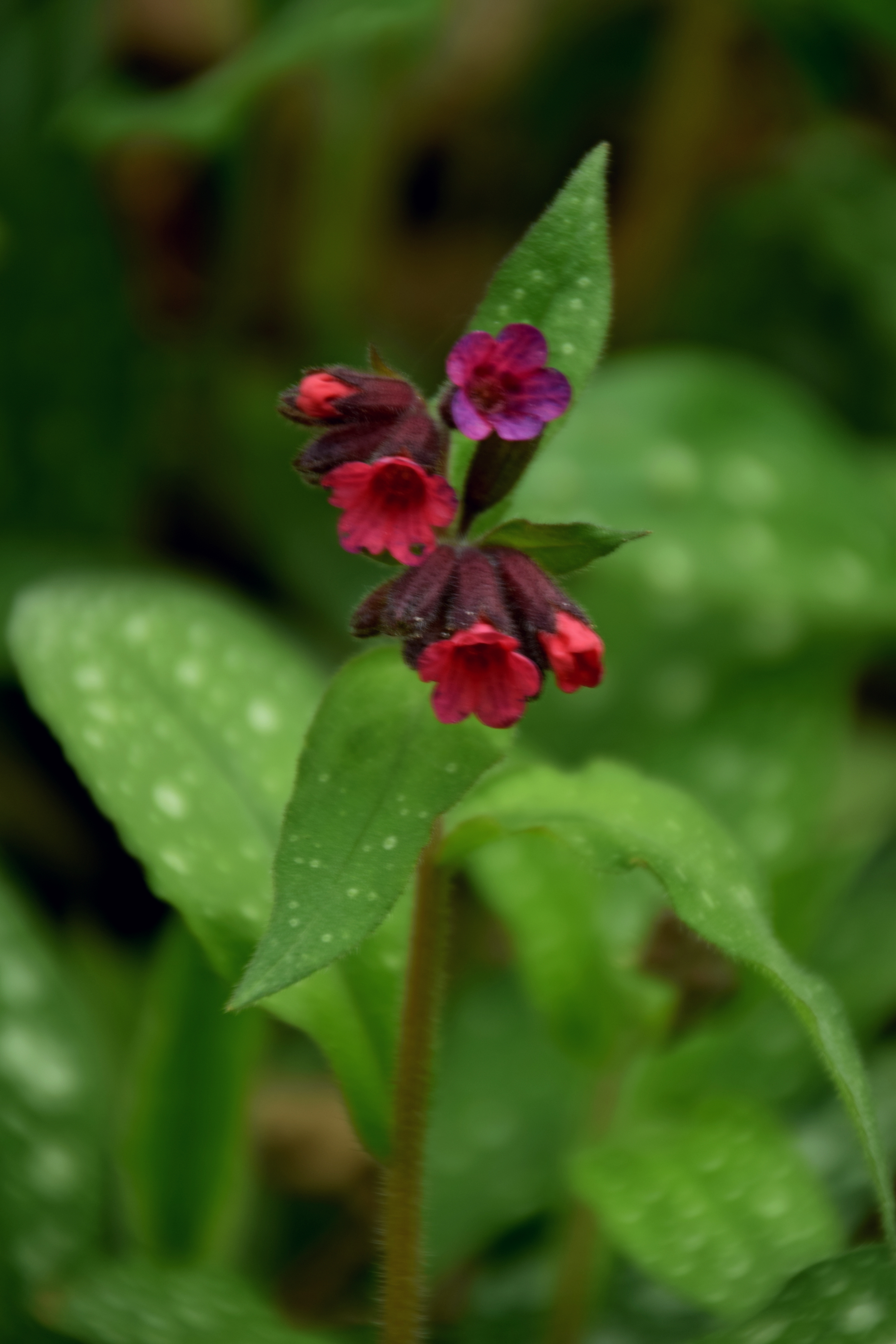 Flowers of Pulmonaria affinis, Belcastel, Aveyron, France